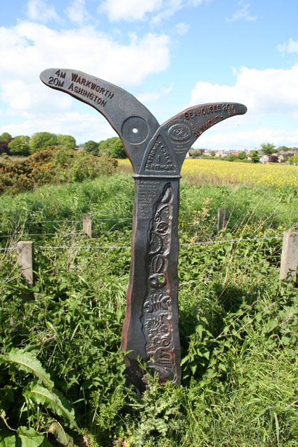 National Cycle Network milepost near Alnmouth One of 1000 mileposts "funded by the Royal Bank of Scotland to mark the creation of the National Cycle Network", this lies next to the cycle path to the west of the Aln estuary.